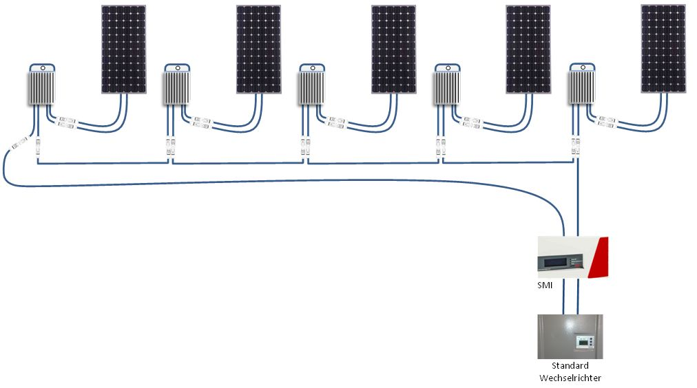 SolarEdge power optimizers Wiring Example with a saftey monitoring interface mode (SMI) and a standard inverter.